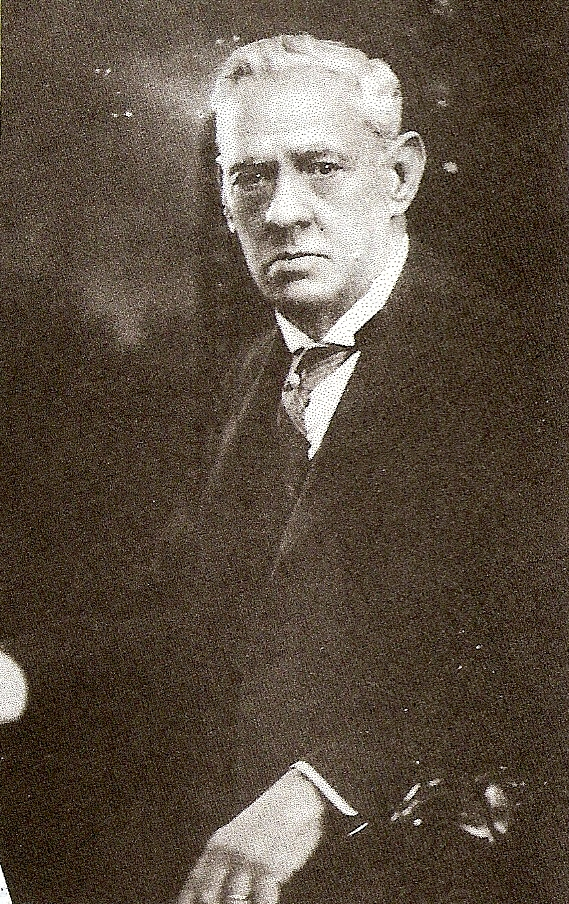 Official Cuban Government Picture of 4th President of Cuba, Alfredo Zayas.